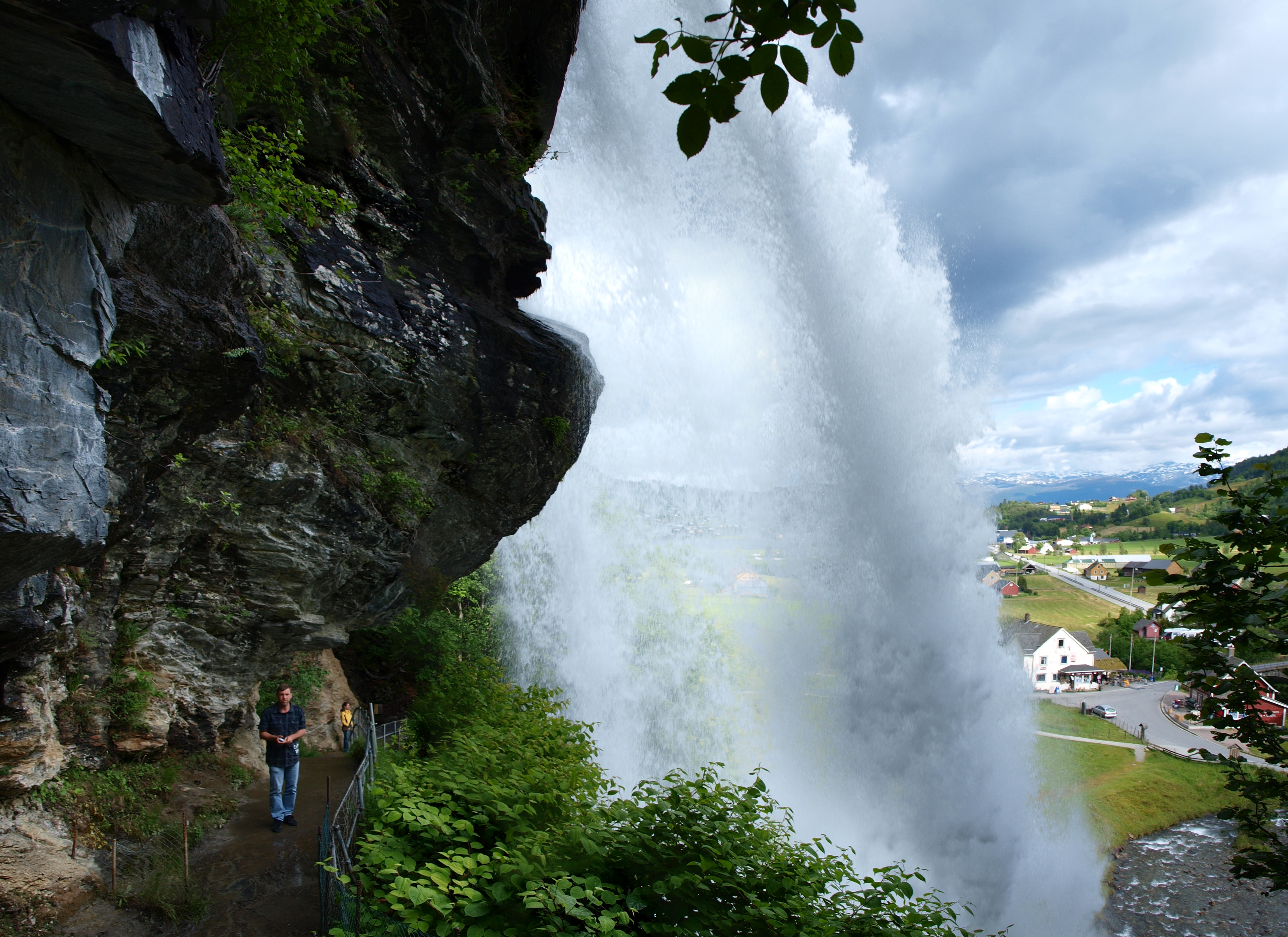 Steindalsfossen in Kvam looking eastward. Image is a mosaic of photos merged in hugin (software).